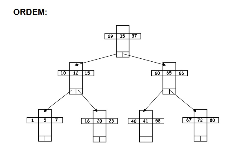 T-tree